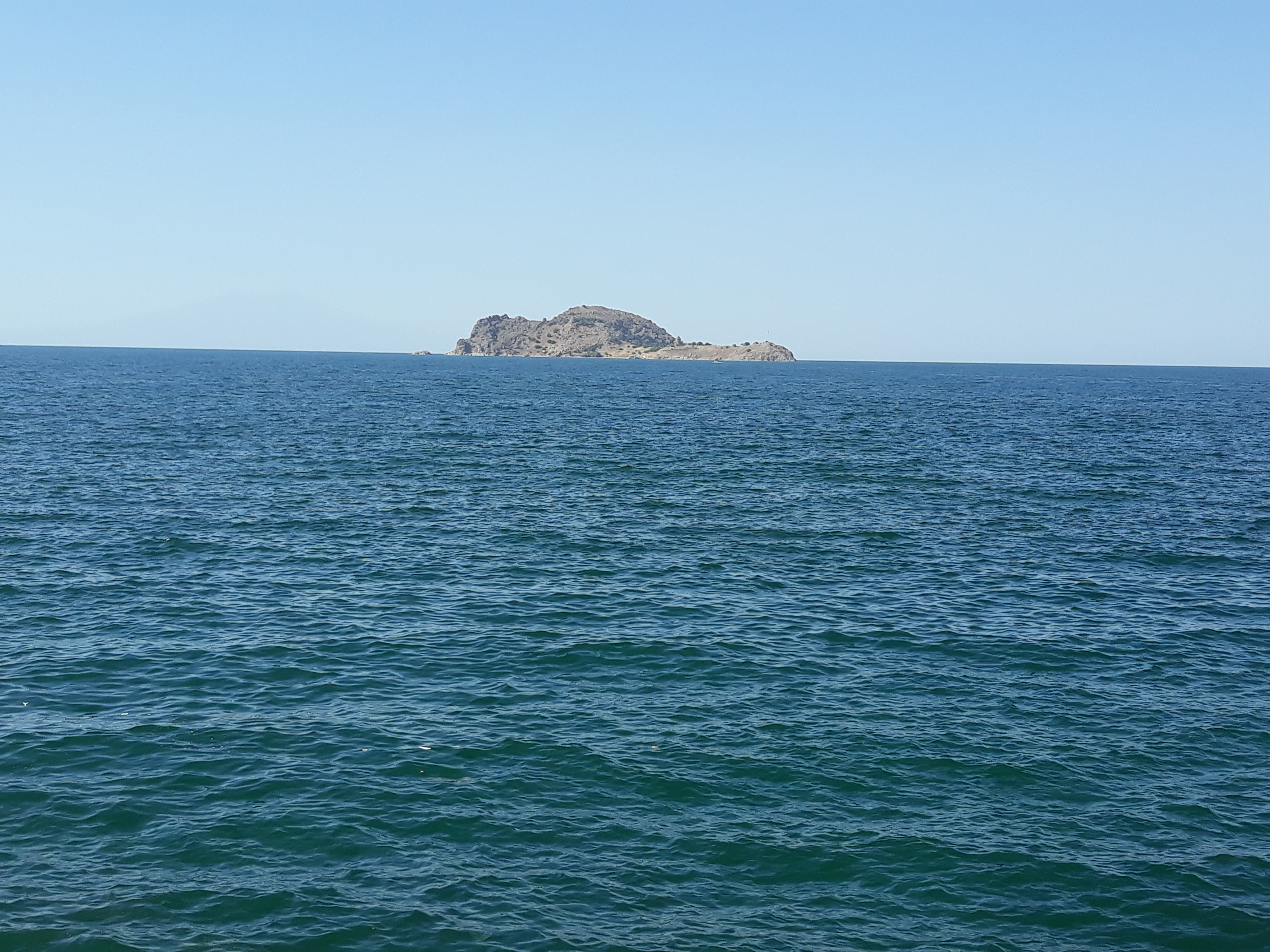 Akdamar island